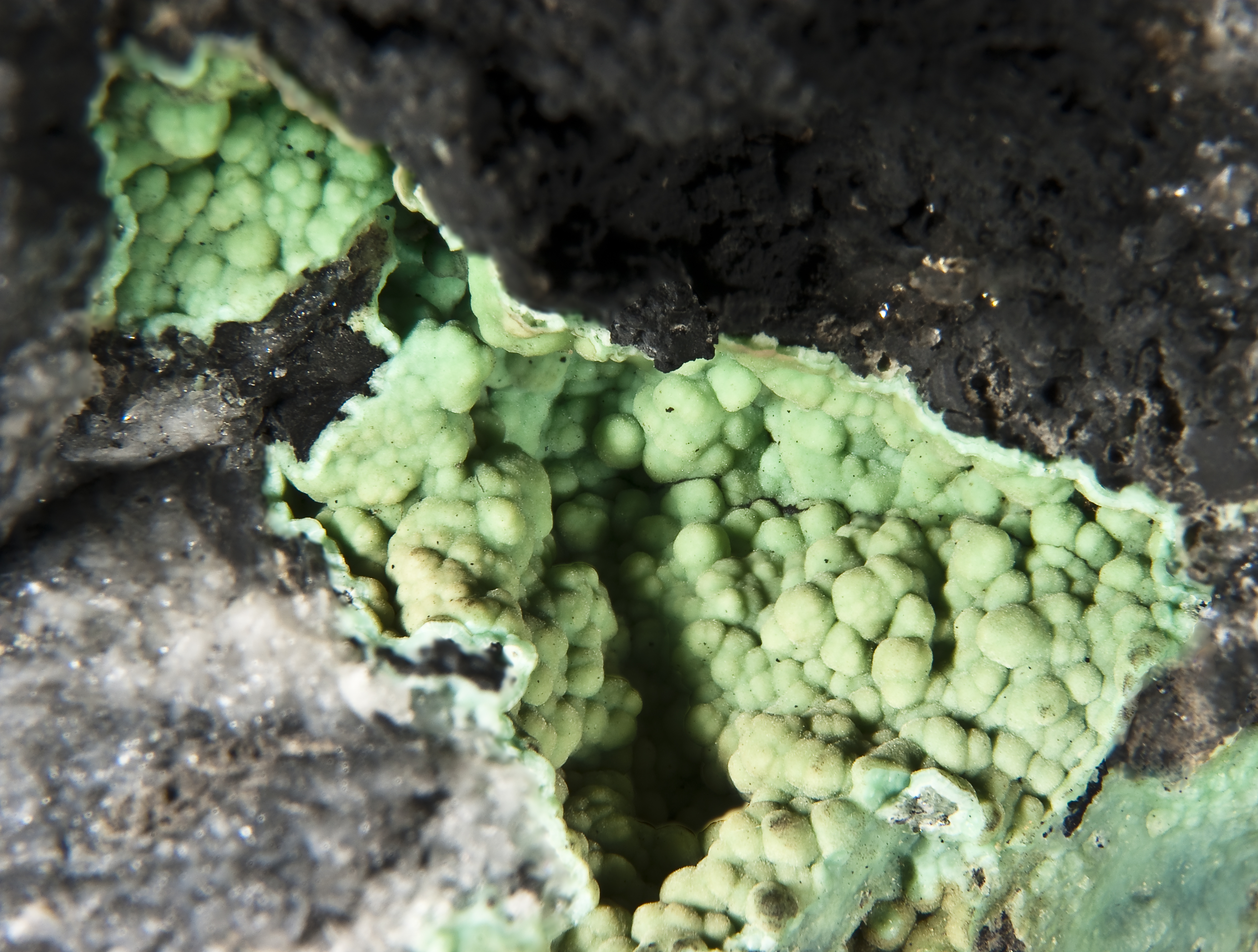 Variscite - La Floquerie Quarry, Pannecé, Loire-Atlantique, Pays de Loire, France (View 3cm)